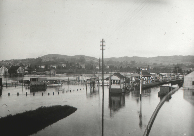 May Hill Station under Flood, probably in 1910 the Wye runs across middle, Quayside Buildings in the middle and the left. Monmouth Museum Identification Number: M87.8